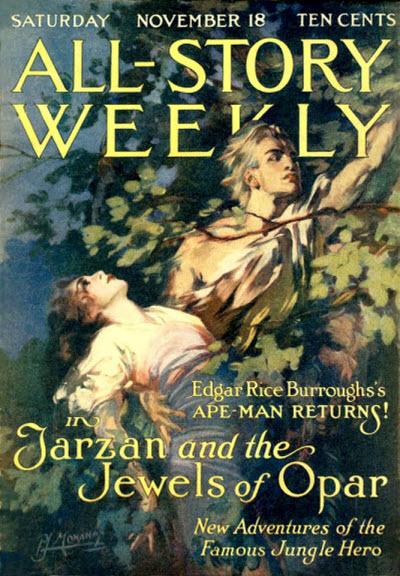 All-Story Weekly, November 18, 1916